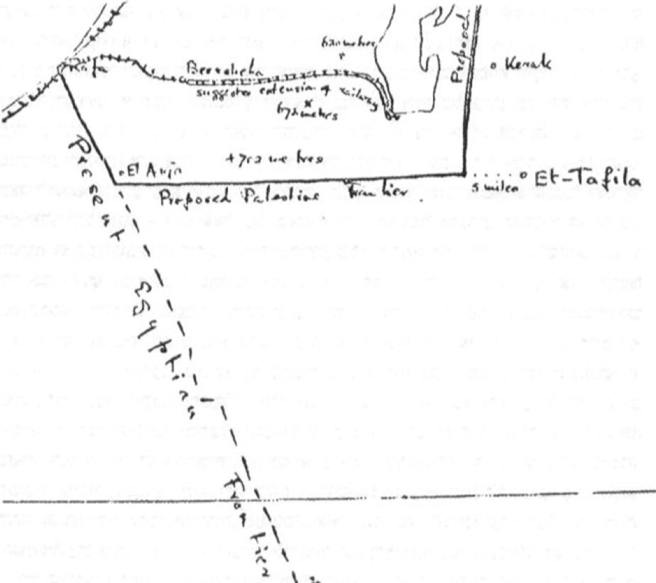 British Proposal for the Southern Boundary of Palestine, 1919 Paris Peace Conference Foreign Office sketch, 1919